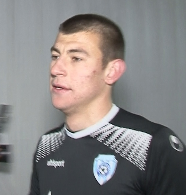 Bulgarian footballer Ivan Dyulgerov